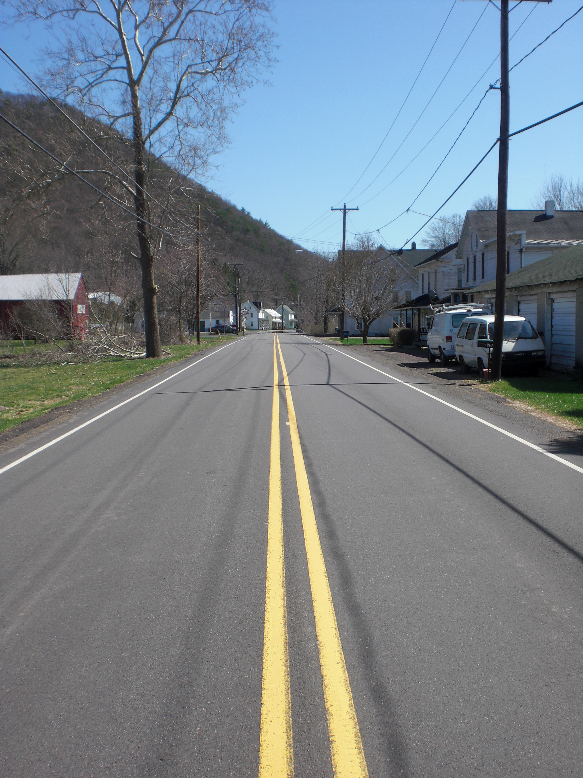 Pennsylvania Route 339 looking south in Mainville